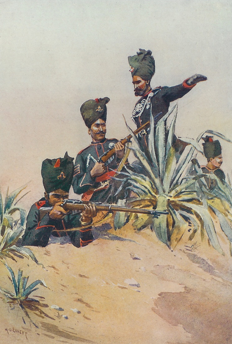 Watercolour of four men of The 125th Napier's Rifles (British Indian Army)